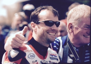 Bruce Anstey pictured at the TT Grandstand.